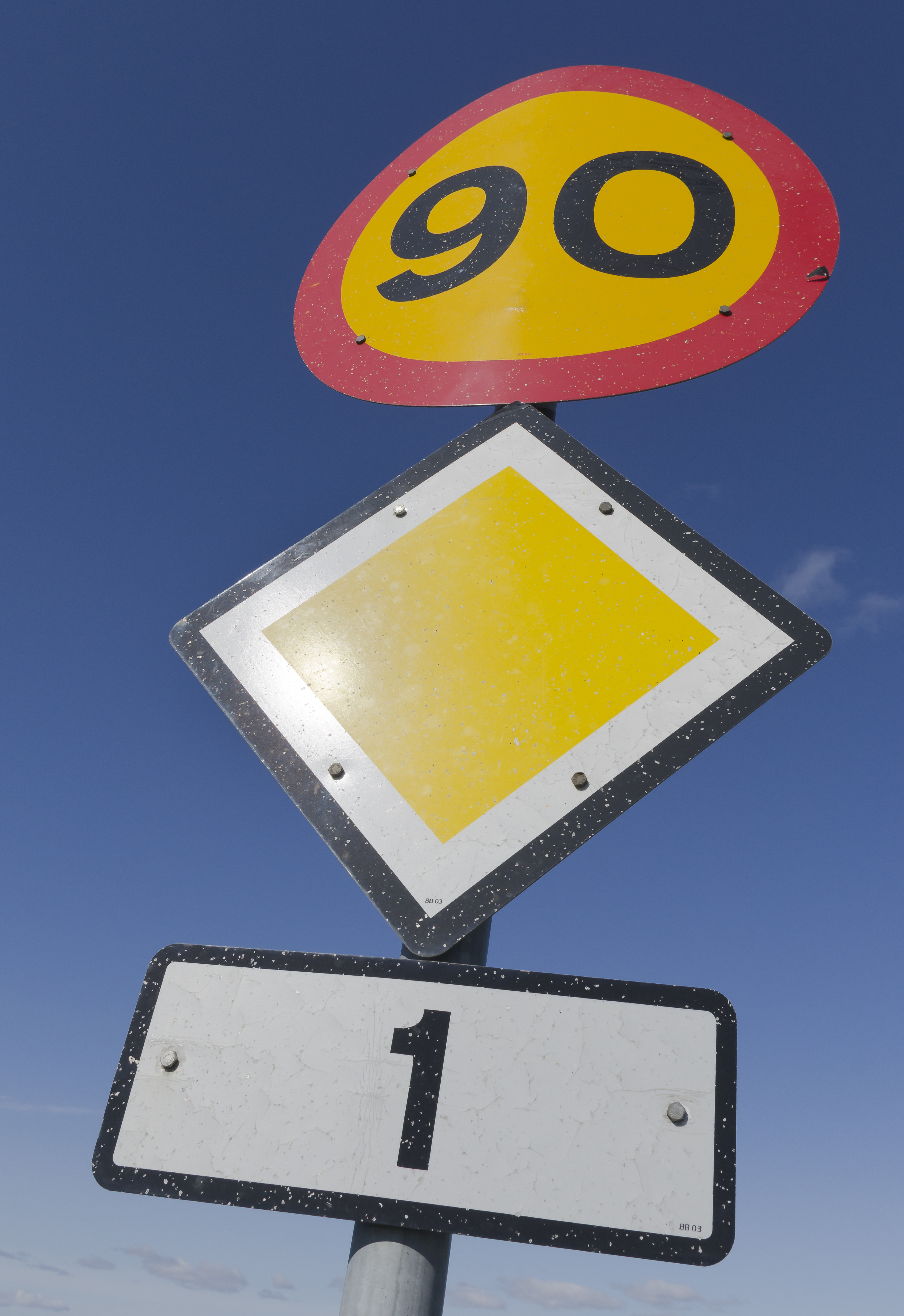 Traffic sign at the Ring Road, Iceland